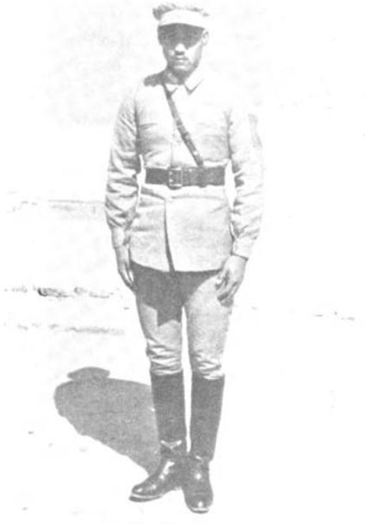 Republic of China Chinese muslim General Ma Hushan. Was a member of the Kuomintang, and commanded the 36th division. Born in 1910, died in 1954.